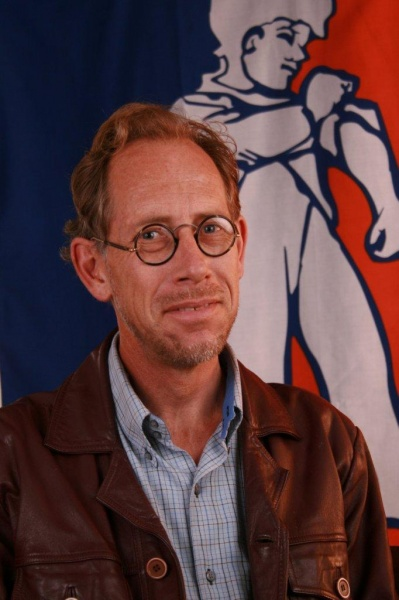 Carel Boshoff IV, President of the Orania Beweging